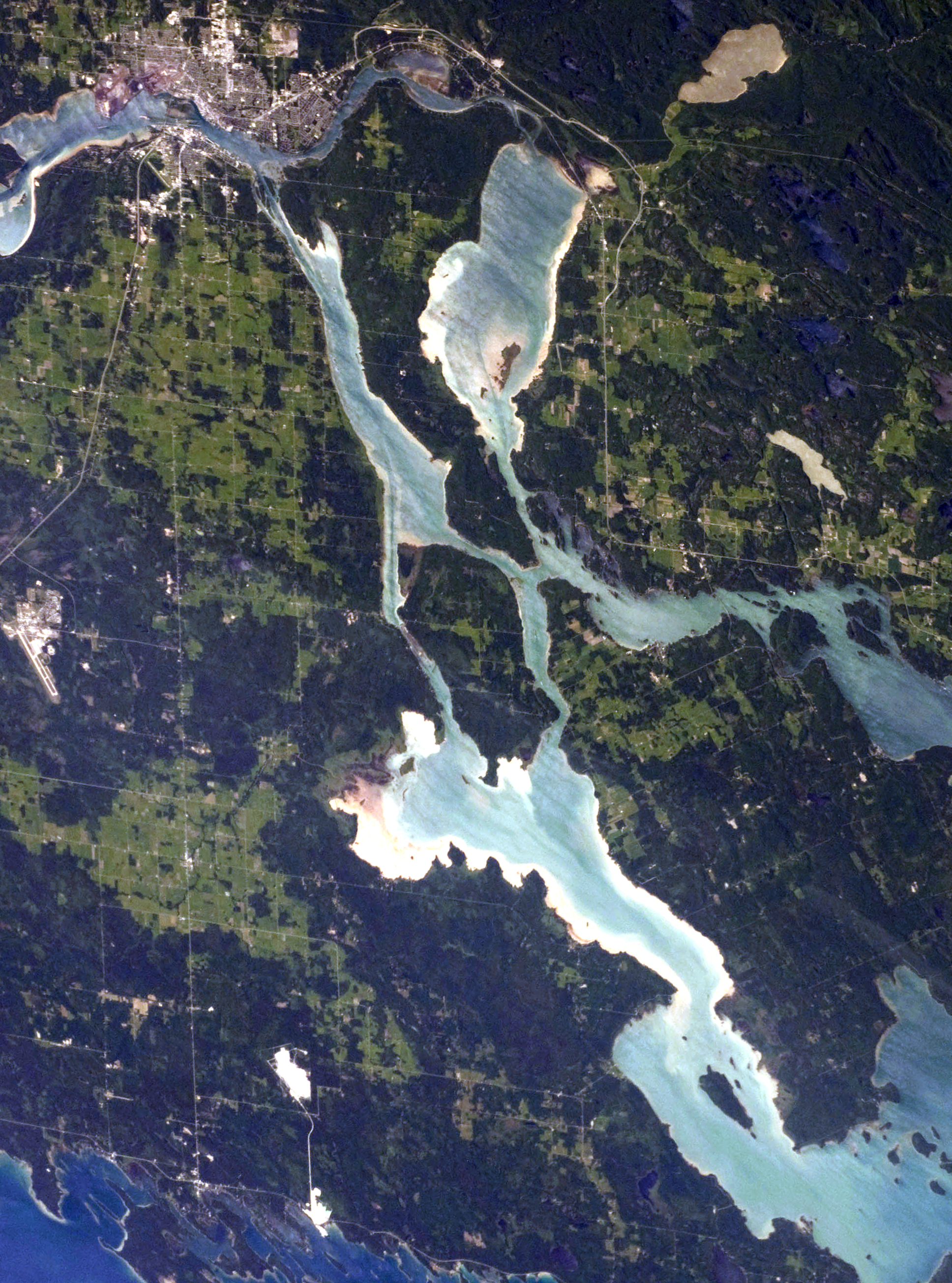 Centred in this astronaut photograph is Neebish Island, Michigan. To the north of it is Sugar Island, Michigan. To the east is St. Joseph Island, Ontario. To the west and south is the eastern corner of Michigan's upper peninsula. The twin cities of Sault Ste Marie, Ontario and Michigan can be seen in the upper right hand corner. These are located across the St. Marys River, which forms part of the international boundary between Canada (Province of Ontario) and the United States (State of Michigan). These urban areas have a distinctive gray to white colour, contrasting with the deep green of forested areas in Ontario and the lighter green of agricultural fields in Michigan. The water surfaces in the lakes and rivers vary from blue to blue-green to silver, likely the result of varying degrees of sediment and sunglint—light reflecting from the water surface back to the International Space Station.